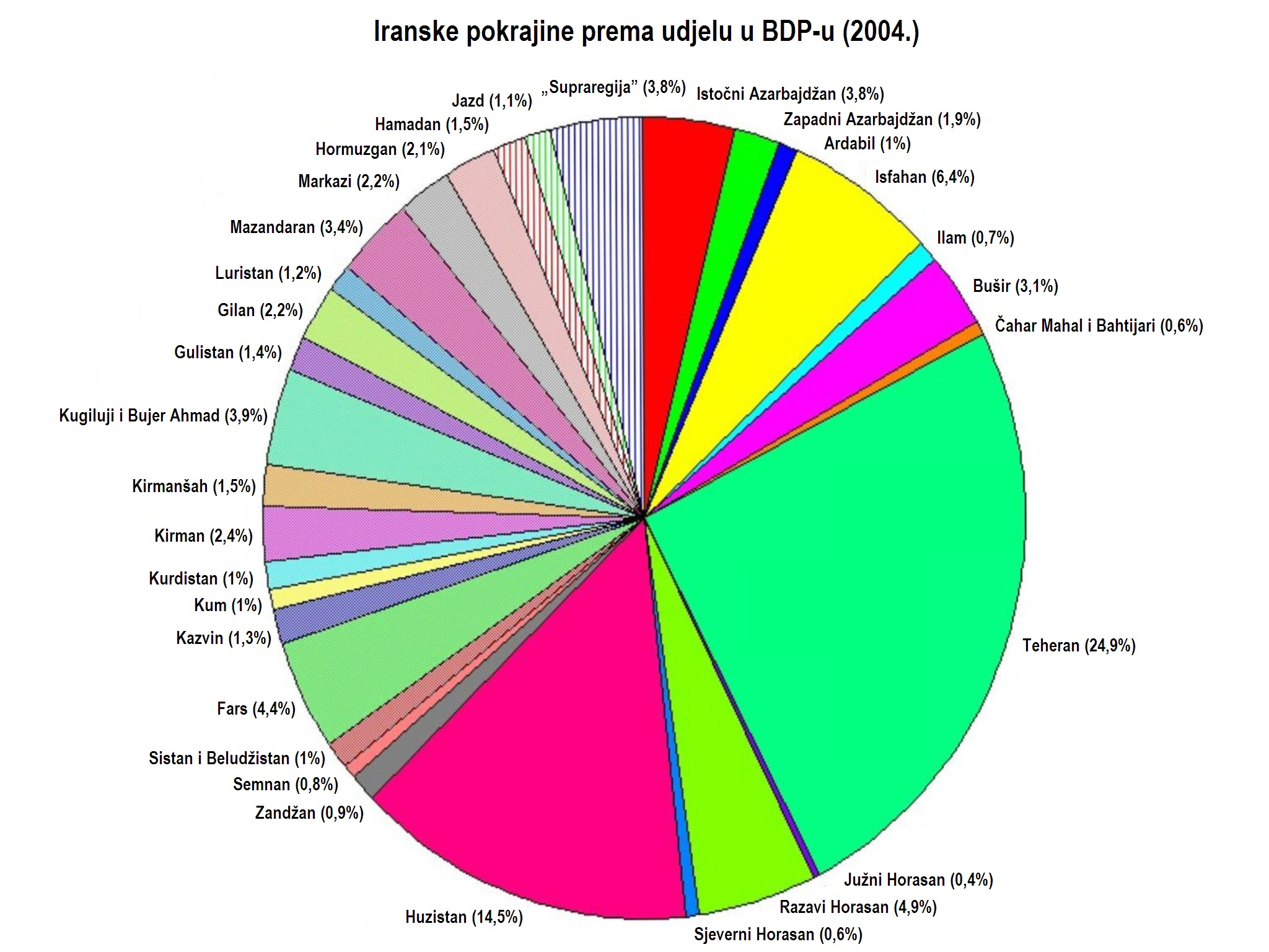 Iran's provinces contribution to GDP (2004/05) - Excluding special revenues and expenditures.